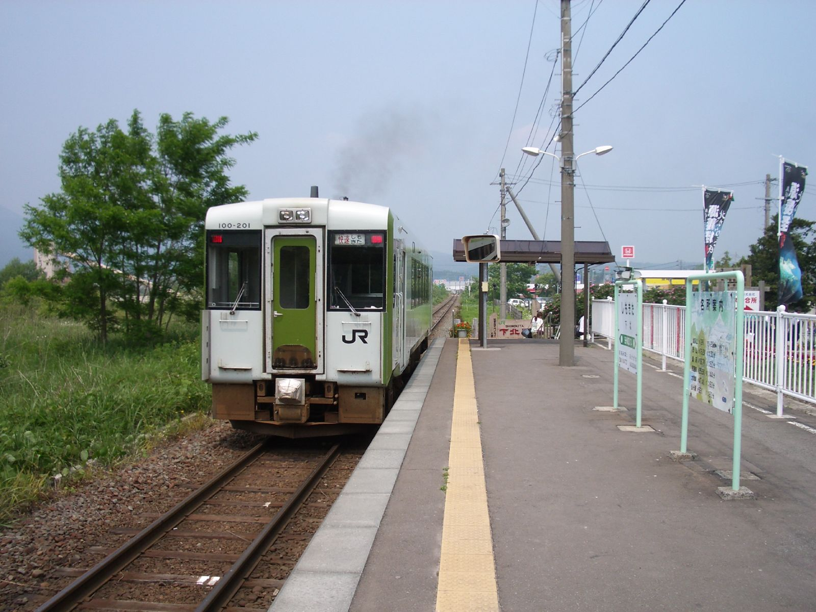 JR East KiHa 100 series DMU car Kiha 100-201 departing from Shimokita Station on the Ominato Line on a Shimokita rapid service